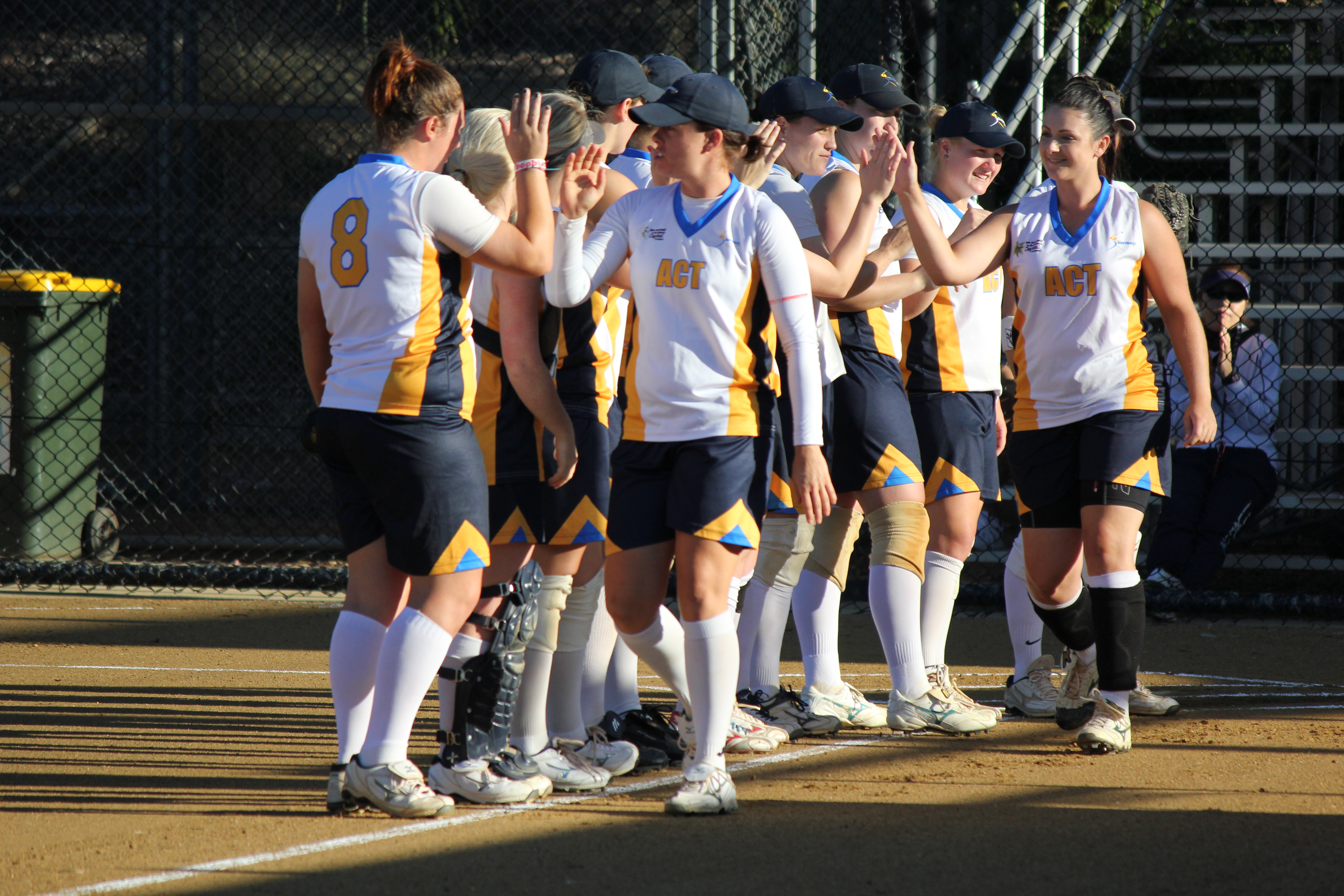 ACT and Japanese teams are introduced before the 20 March 2012 game at Hawker International Softball Centre in Hawker, Australian Capital Territory. (Japan won the game 10-0.)